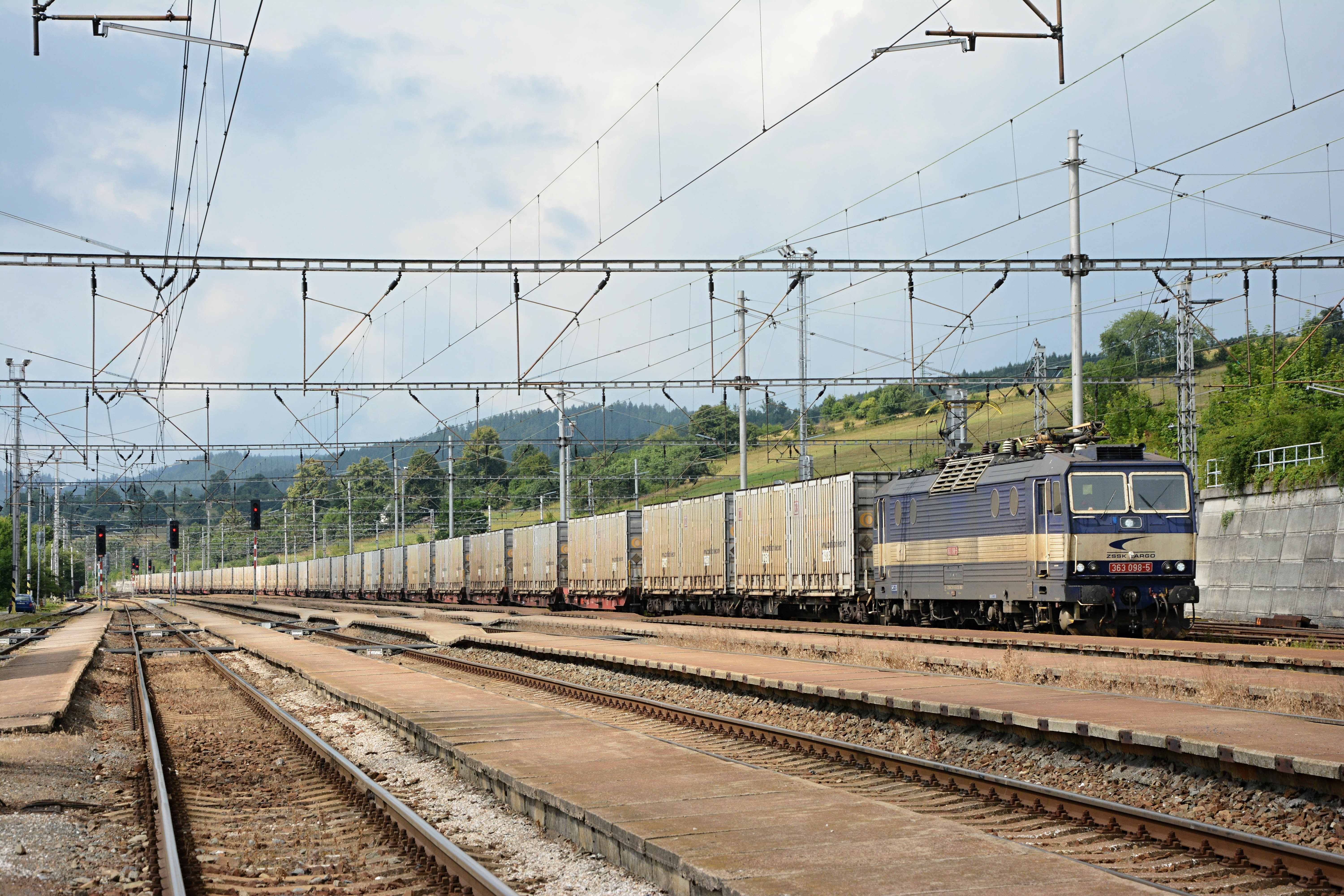 363 098 ZSSK Cargo with DB Cargo Czechia train Nex 47307 transported empty DB Megaboxes from Hannover to Púchov; Horní Lideč station, Czech Republic